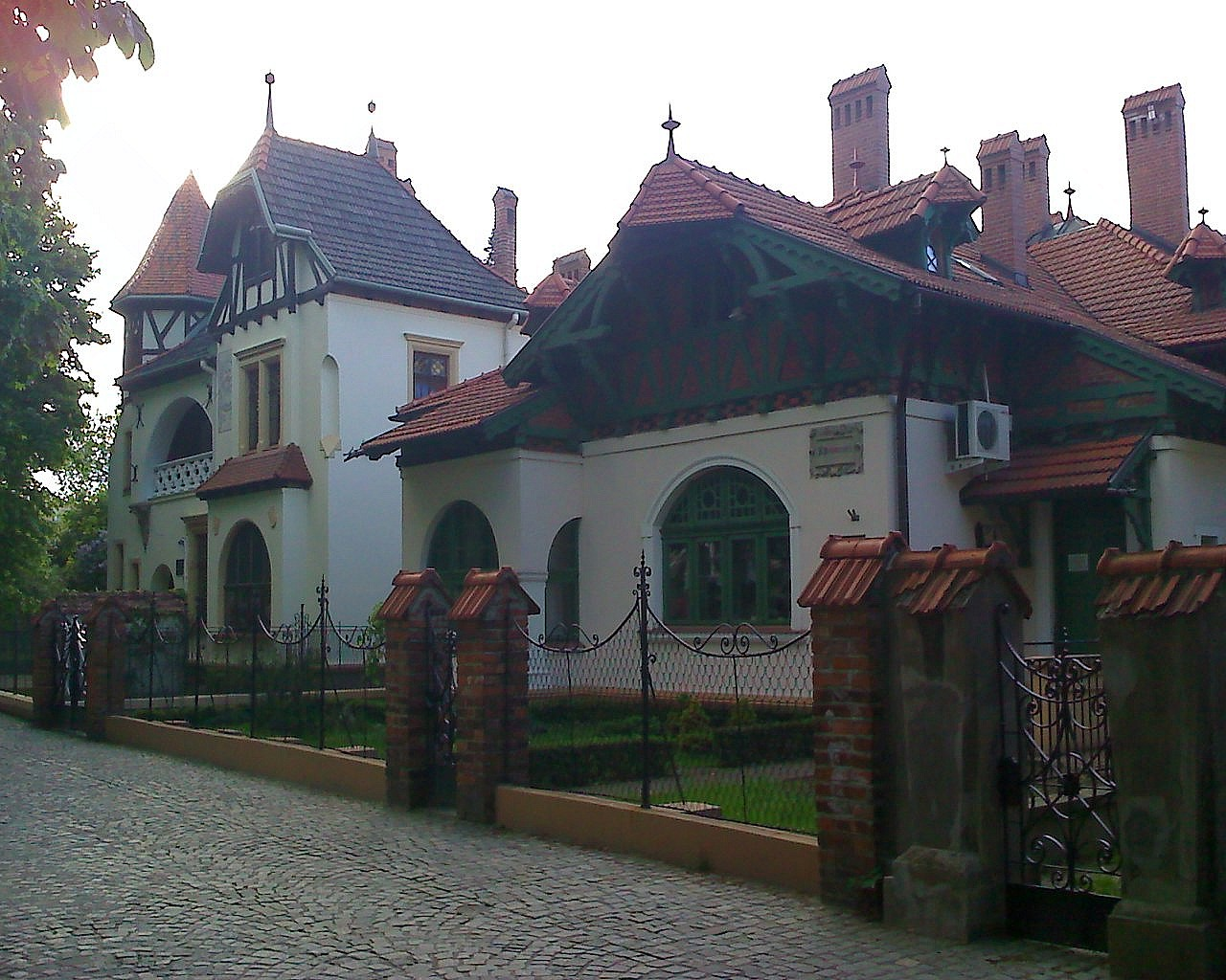 2 residences (Art Nouveau) in Pod Kasztanami Str., inspired by Swiss provincional architecture; Projected by M. T. Tekielski in 1899 and 1900